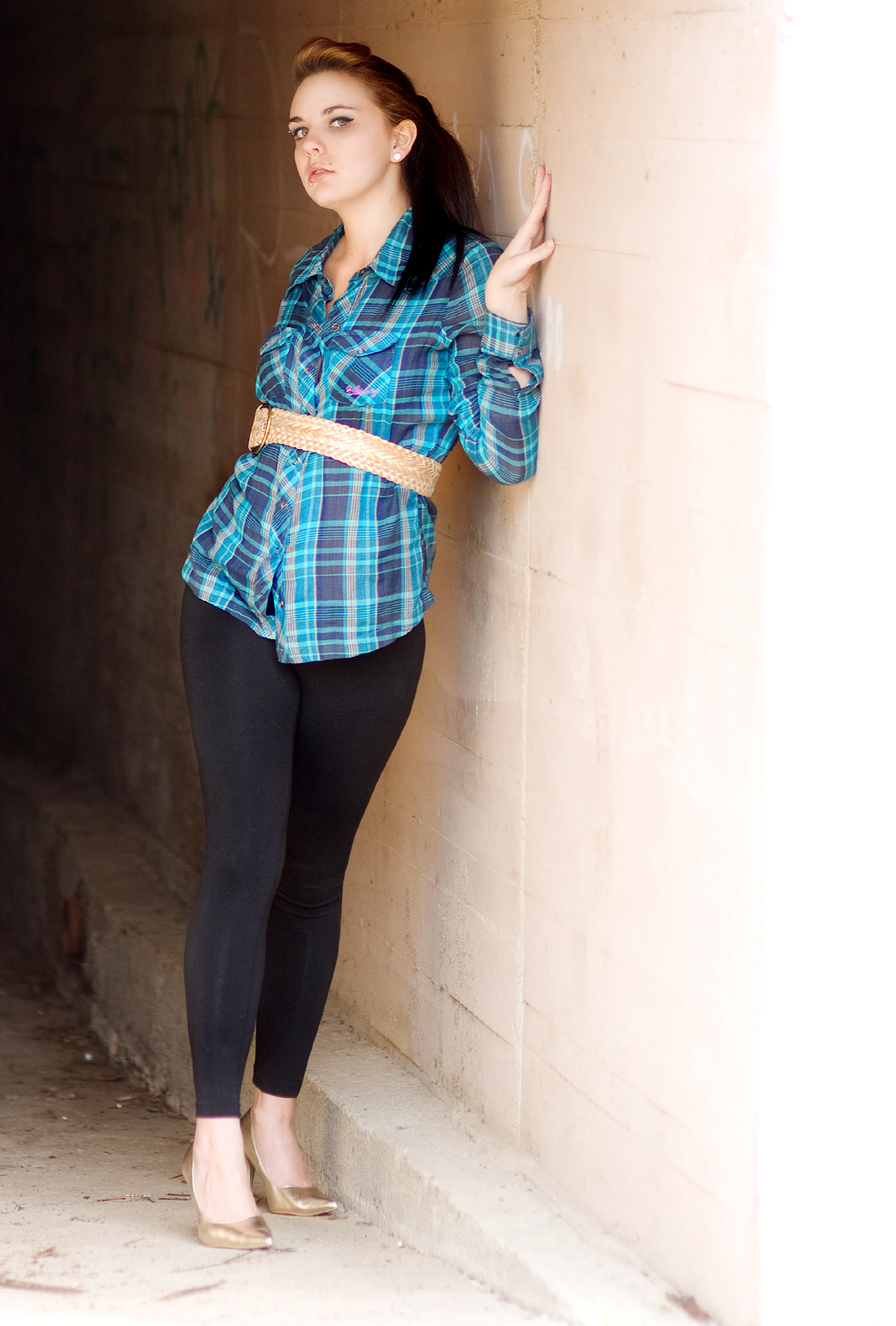 Young woman wearing a shirt and leggings. Photograph by Liz Welsh.